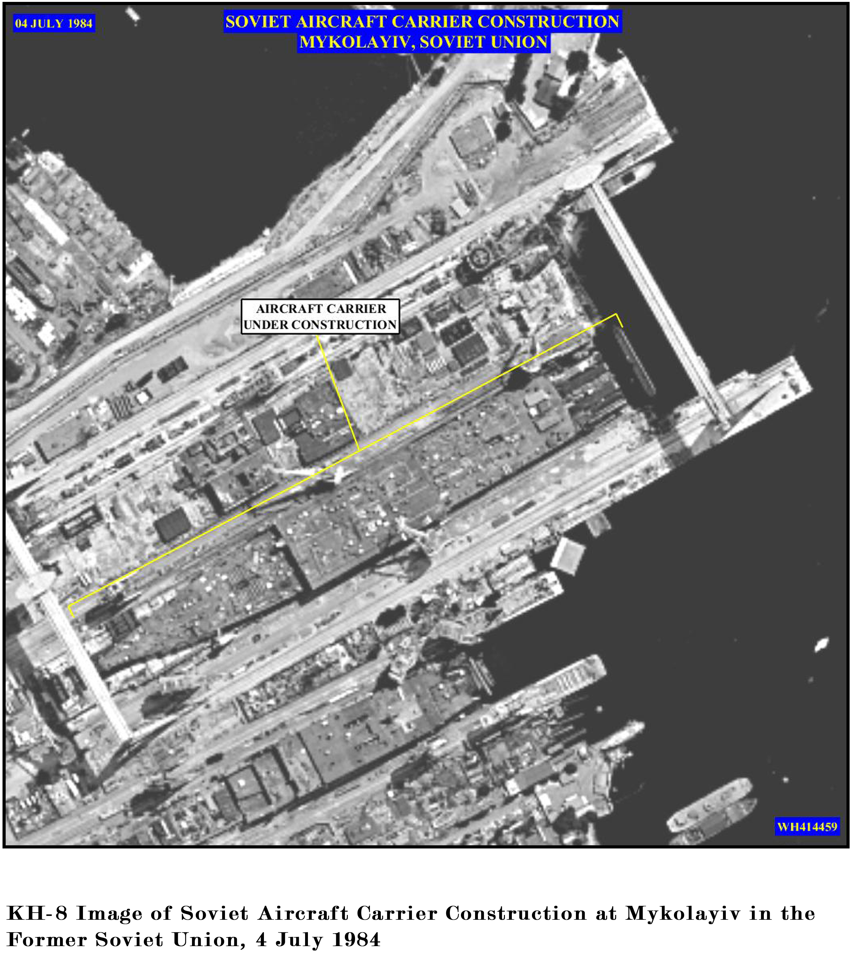 Image of a part built aircraft carrier at Mykolayiv, former USSR. Taken by KH-8 satellite. 4 July 1984.